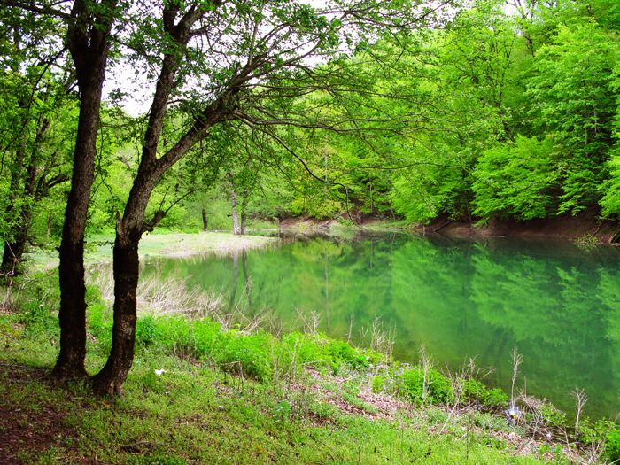 Miyansheh Lake, Mazandaran Province of Iran